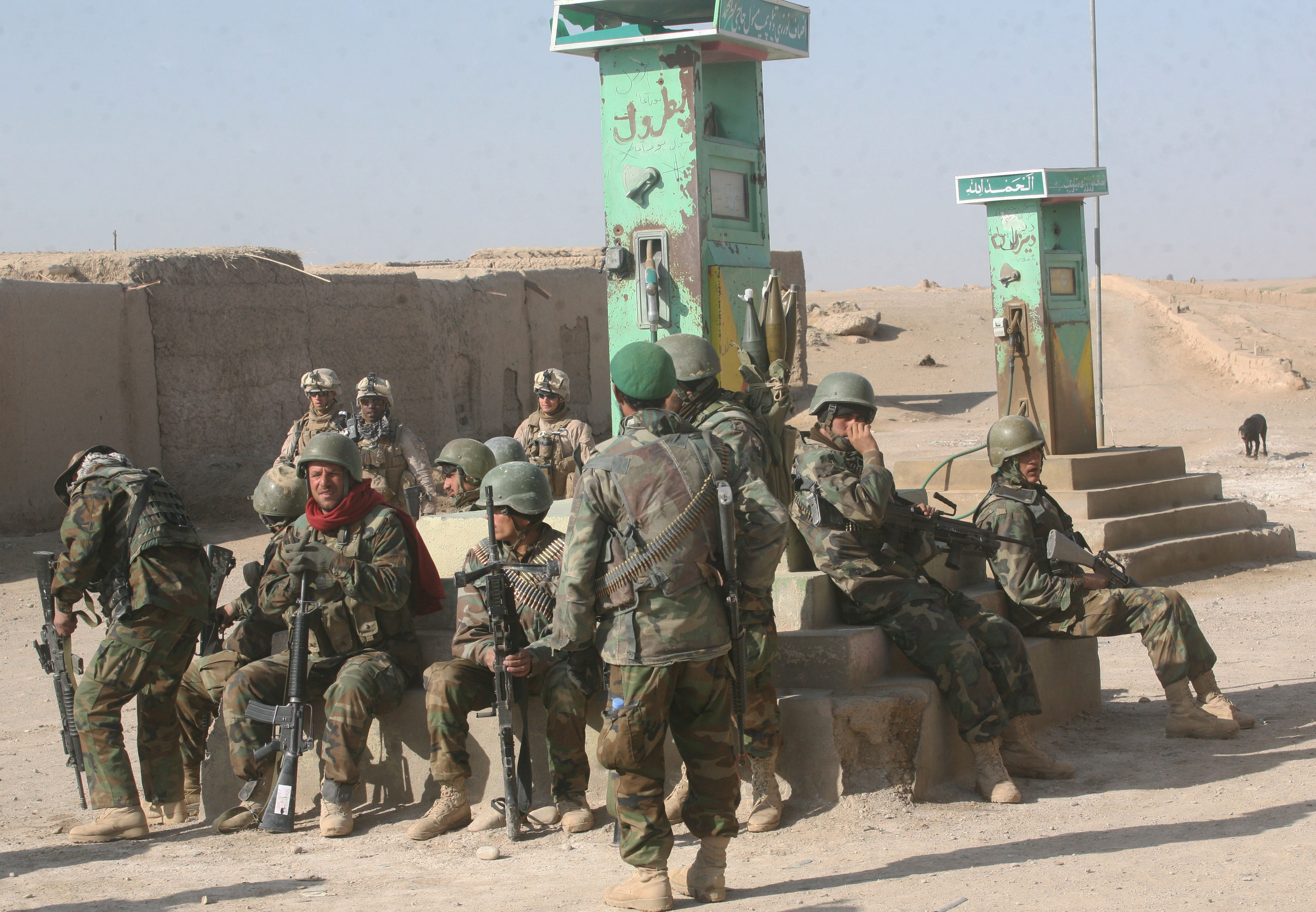 HELMAND PROVINCE, Islamic Republic of Afghanistan – Soldiers from the Afghan National Army relax after a patrol in Marjah, Helmand province, Afghanistan, Feb. 14, 2010.The ANA soldiers and Marines from 3rd Battalion, 6th Marine Regiment, have been conducting Operation Moshtarak to eliminate Taliban presence and intimidation from the city of Marjah. (Official Marine Corps photo by Lance Cpl. Tommy Bellegarde)